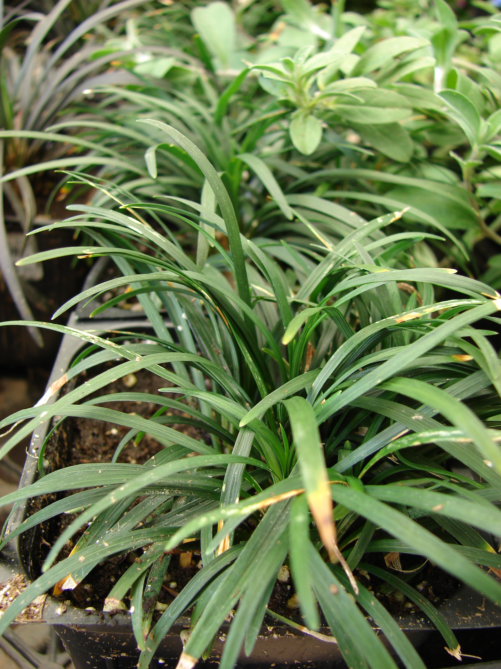 Ophiopogon japonicus (habit). Location: Maui, Walmart Kahului